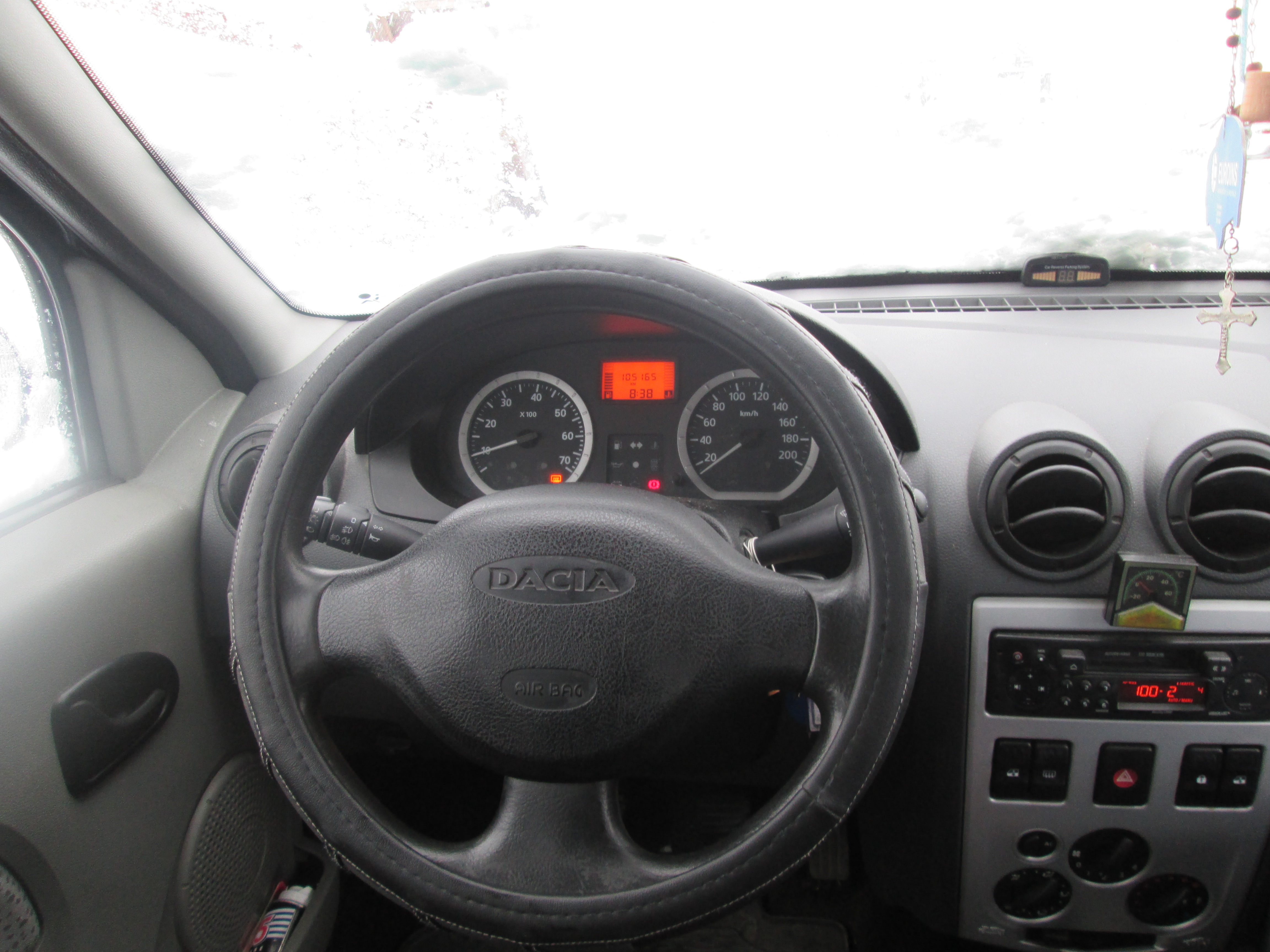 Dashboard of a Dacia Logan from 2004 to 2008